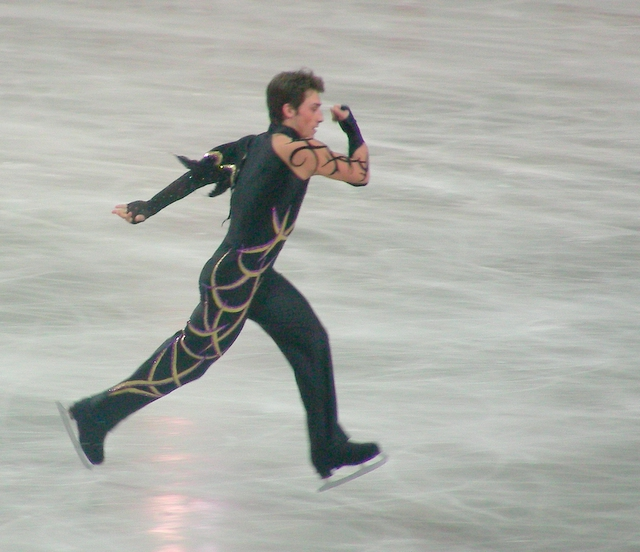 Brian Joubert on the 2007 European Figure Skating Championships in Warsaw - free skate